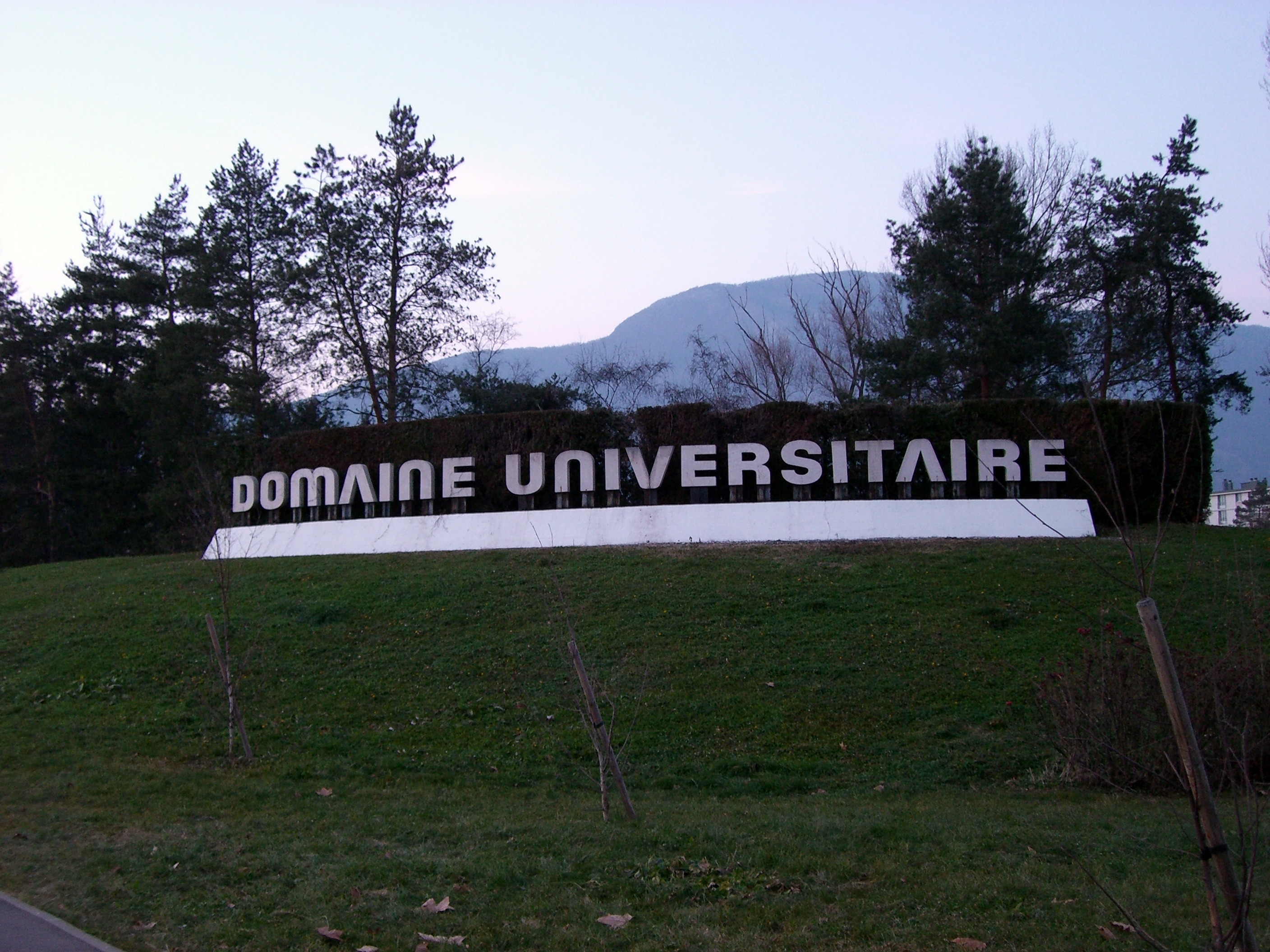 The entrance of the University Domain of Saint-Martin-d'Hères. Stop Neyrpic-Belledonne of the Streetcar C. The University Domain is often attached with the city of Grenoble.